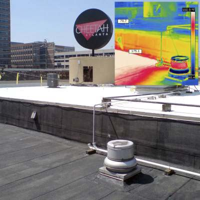 Infrared image clearly shows the heat reflective properties of elastomeric roof coatings. Almost 100 degrees F heat reduction at the roof surface. Picture was taken March in Atlanta.